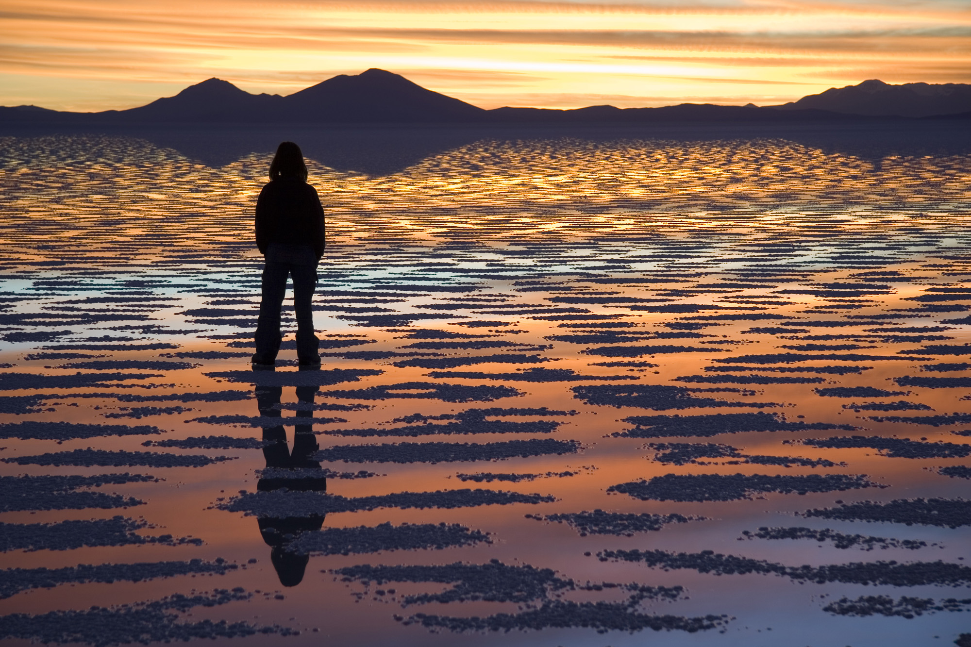 Watching Sunset, Salar de Uyuni, Bolivia. When is covered with water the Salar de Uyuni reflects sun light. Here as it looks like at sunset.